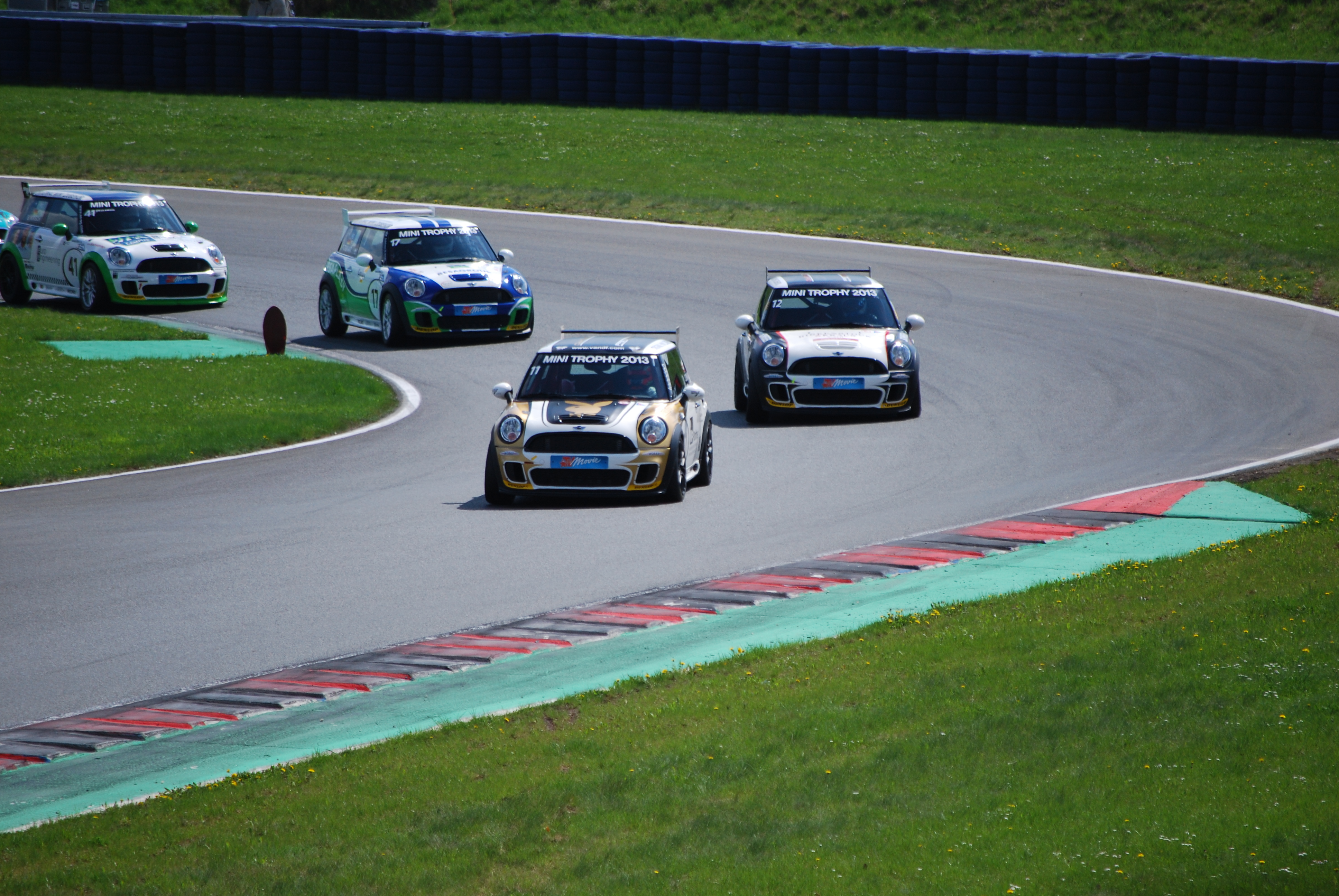 MINI Trophy Race 2 in Oschersleben 2013. #11 Jürgen Schmarl, #12 Andre Fleischmann, #17 Thomas Tekaat and #41 Steve Kirsch